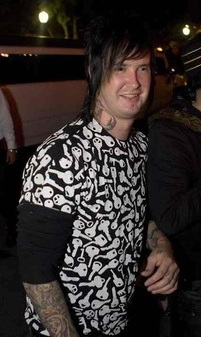 James in the street